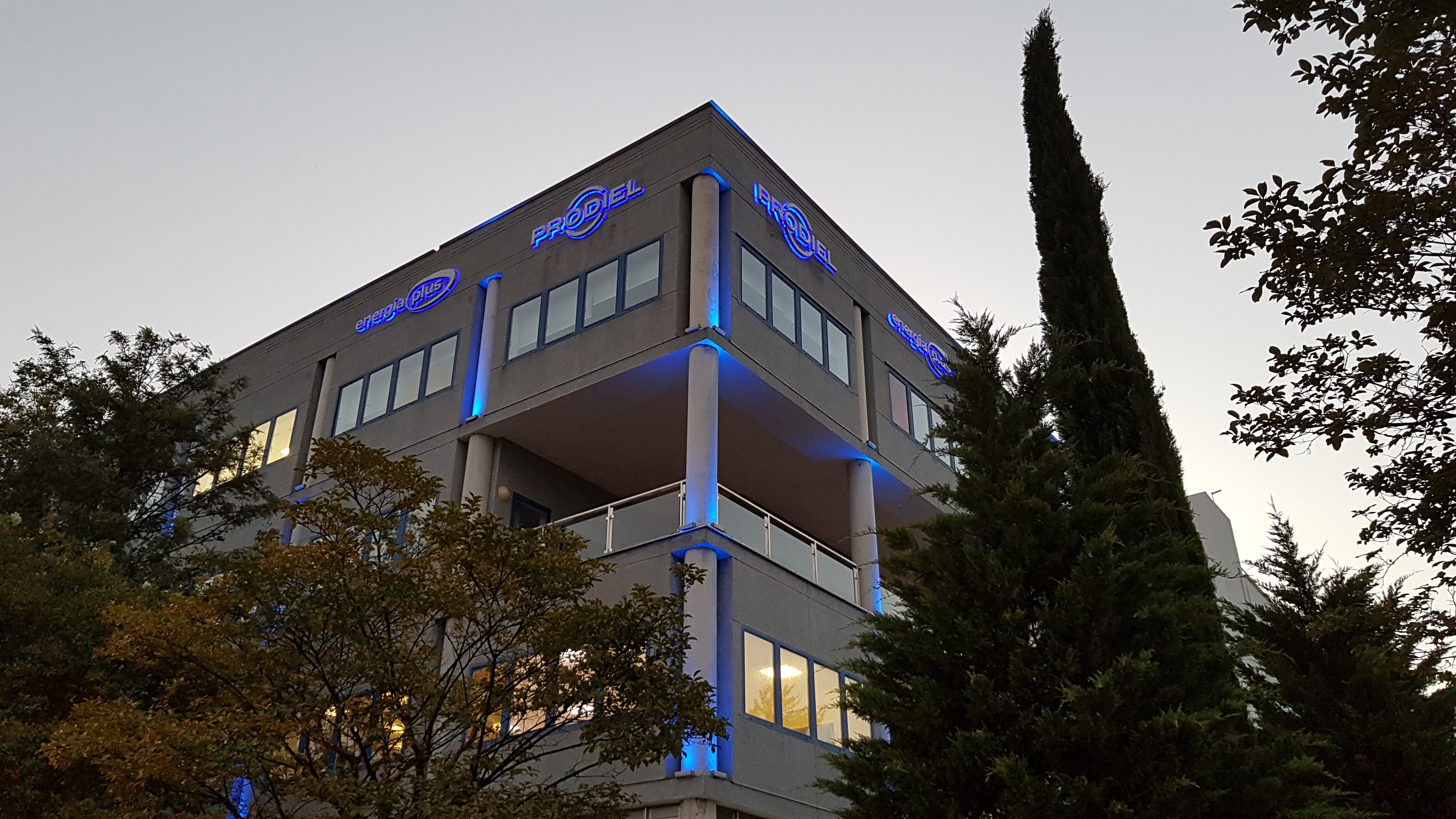 Prodiel international headquarters at PCT Cartuja, Spain